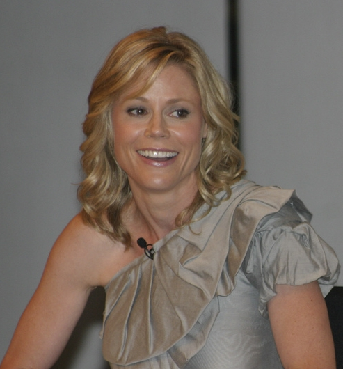 Julie Bowen in 2009. Original photo by Martyna Borkowski.